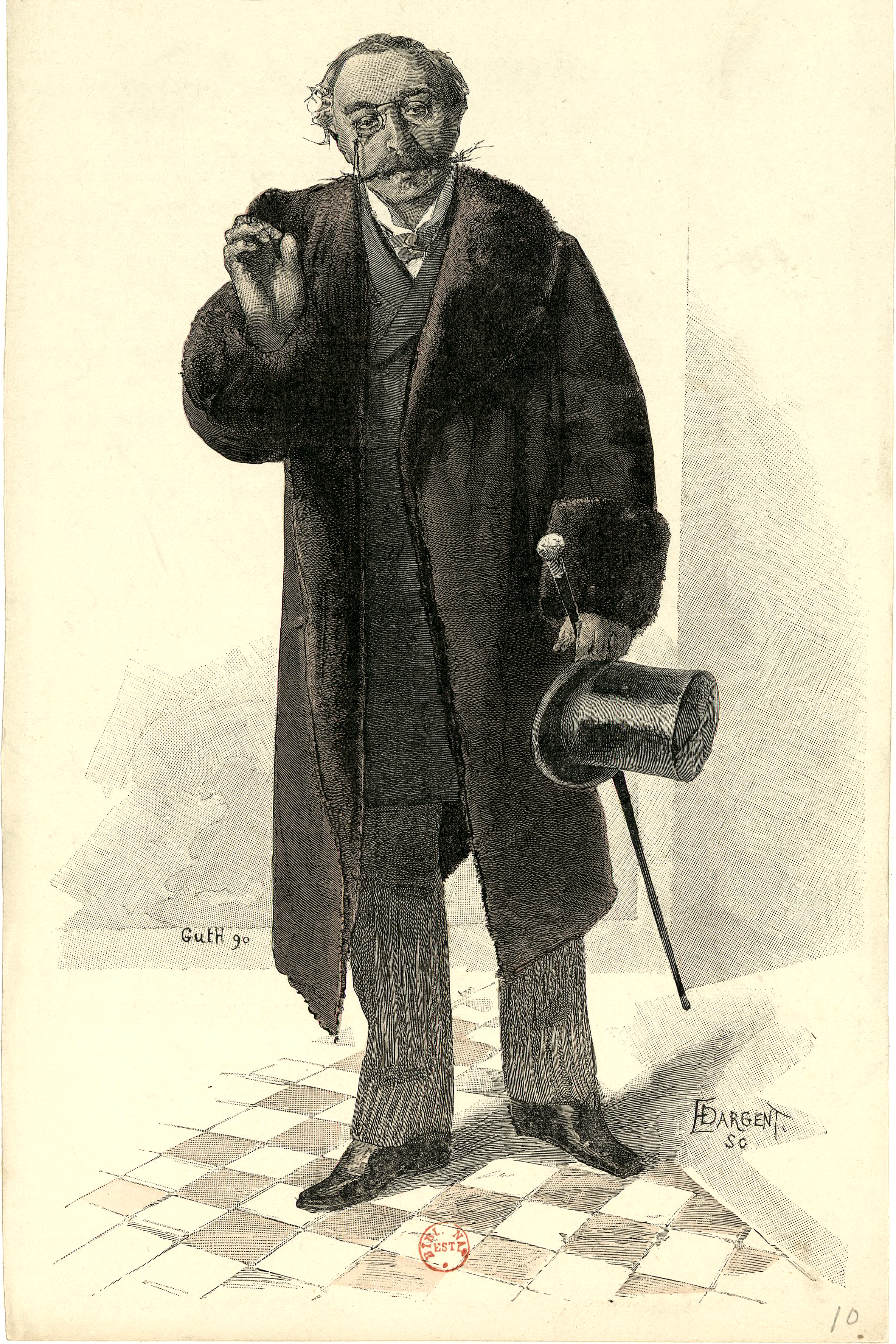 Portrait of Gilbert Augustin-Thierry (1840–1915), French novelist, poet, and journalist.